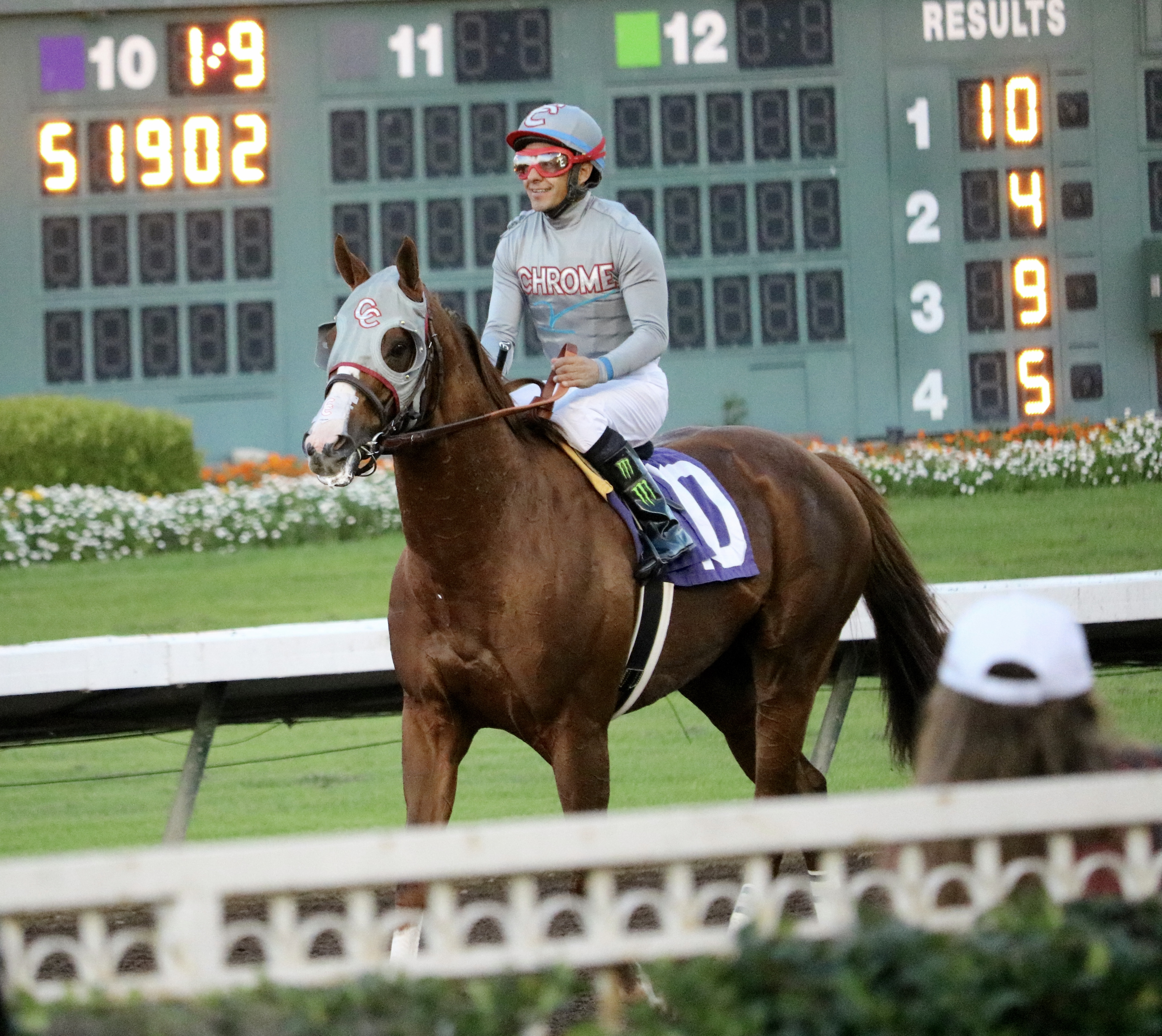 California Chrome and Victor Espinoza after winning the Winter Challenge Stakes by 12 lengths at Los Alamitos Race Track, December 17, 2016